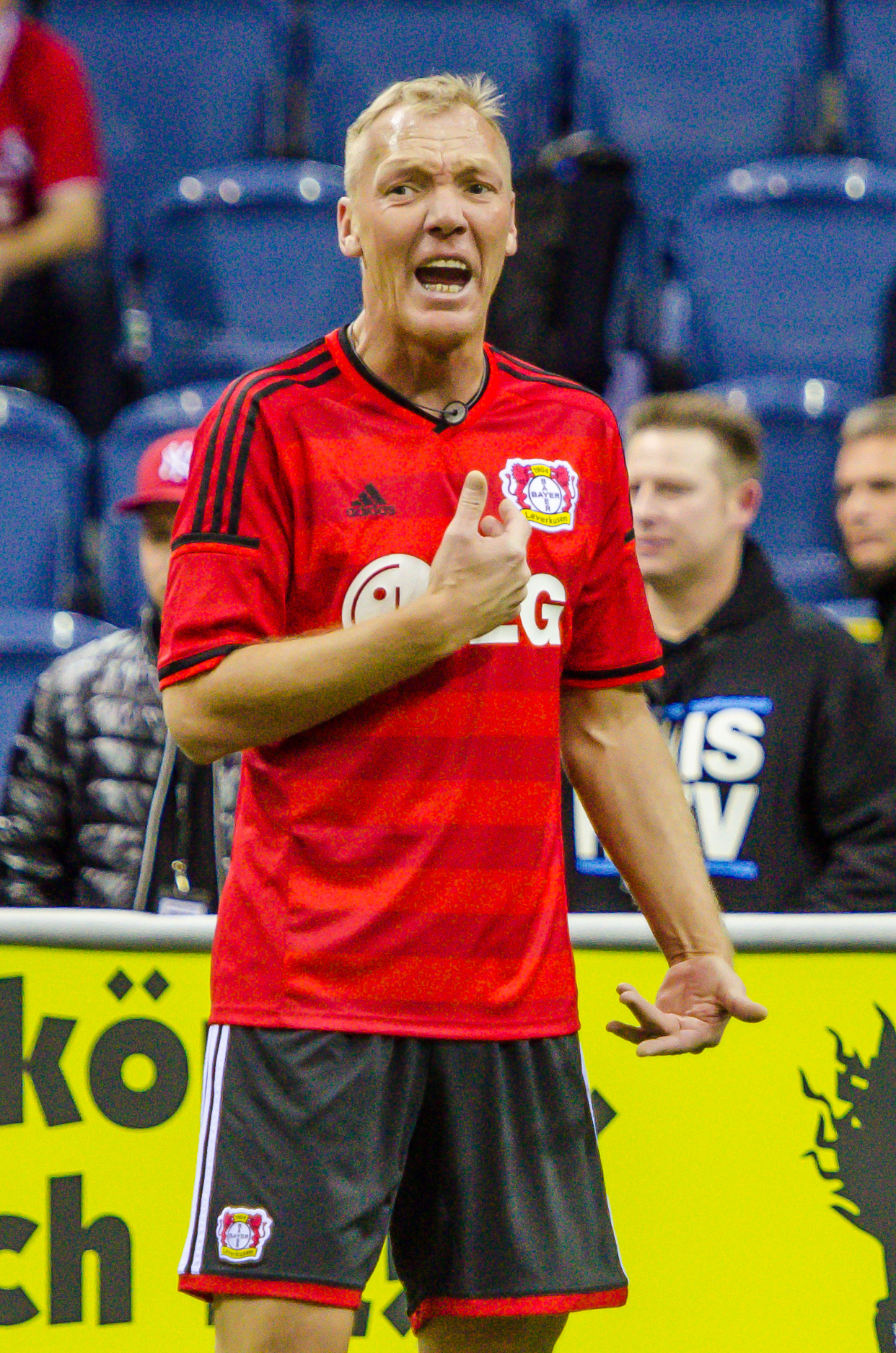 Marcus Feinbier, german soccer player